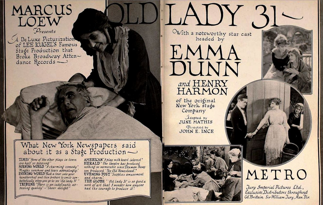 Ad for the American film Old Lady 31 (1920) with Emma Dunn and Henry Harmon, pages 2932 and 2933 of the March 27, 1920 Motion Picture News.